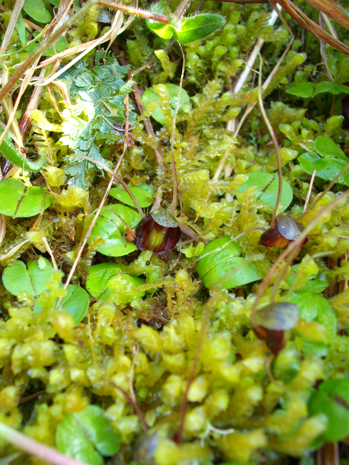 Corybas confusus Lehnebach in the wild